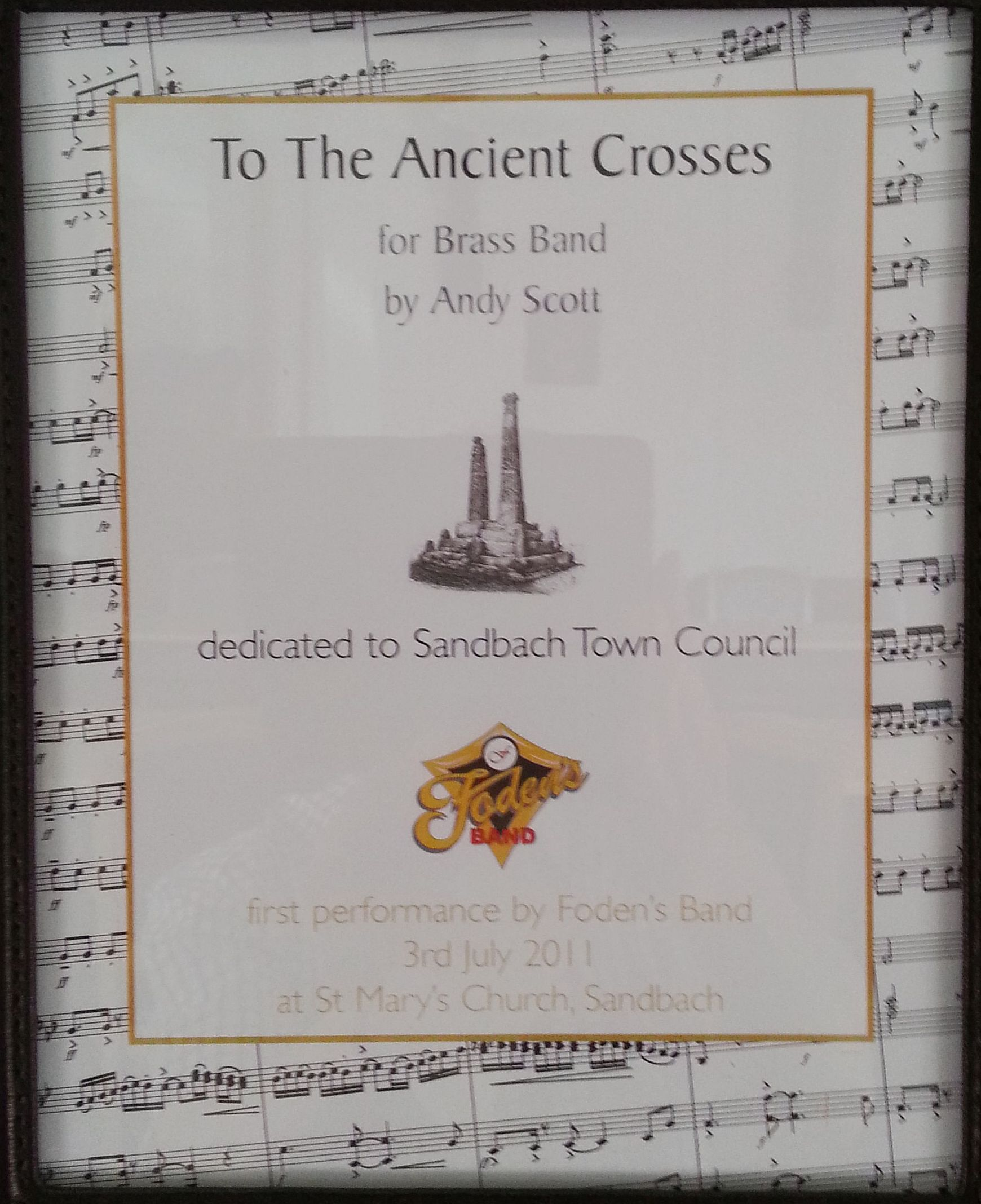 Musical certificate of dedication to Sandbach Town Council, displayed in the Council Chamber at Sandbach Literary Institution. It reads: To the Ancient Crosses for Brass Band by Andy Scott dedicated to Sandbach Town Council first performance by Foden's Band 3rd July 2011 at St Mary's Church, Sandbach